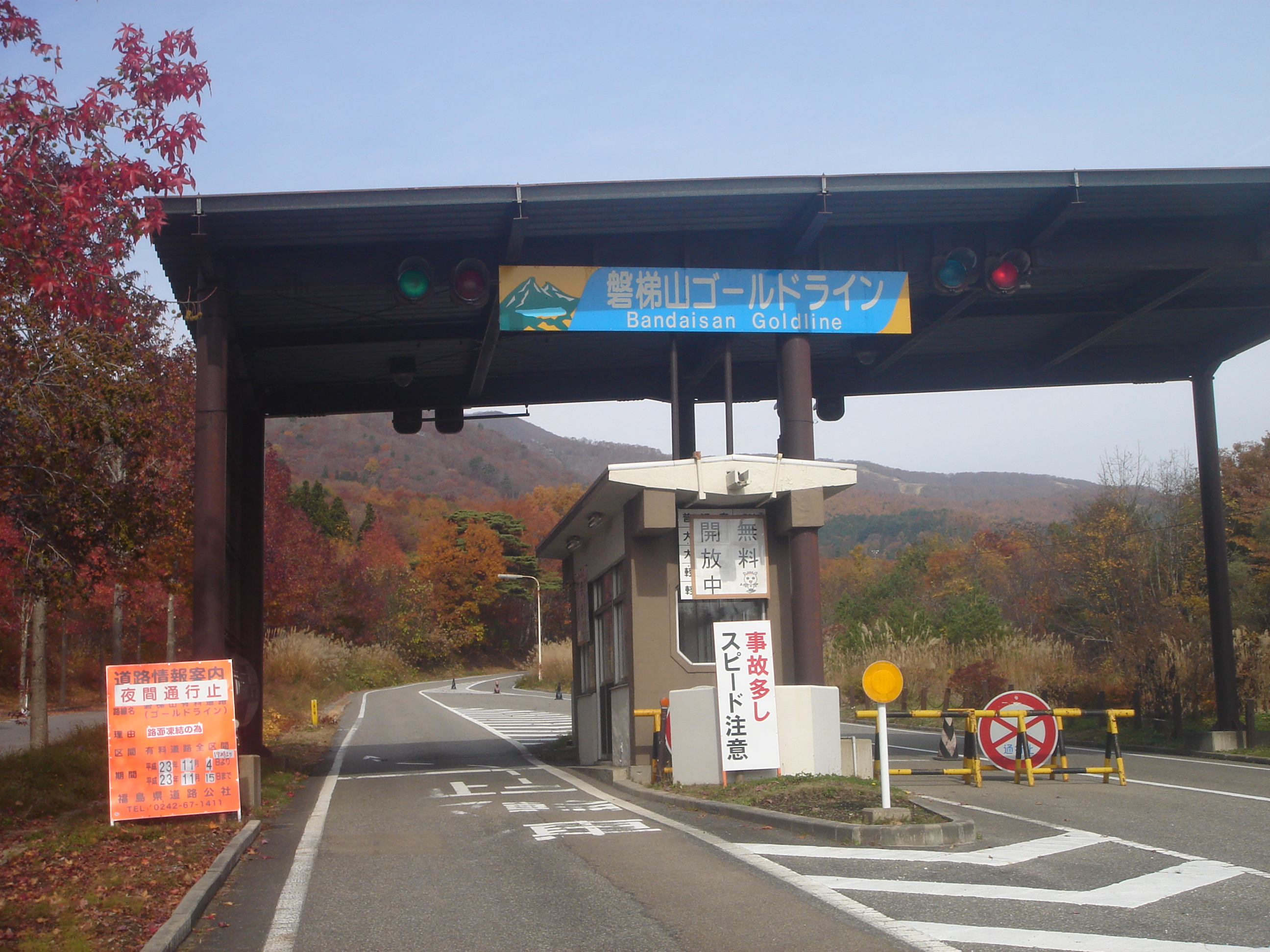 The Bandaisan Gold Line, former toll road in Fukushima Prefecture, Japan